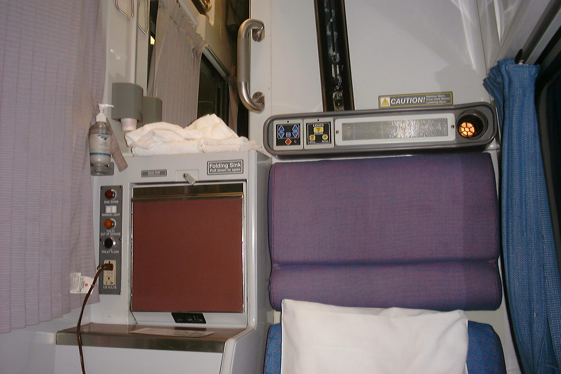 The seat in a Viewliner sleeper.